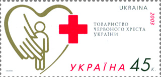 Stamp of Ukraine